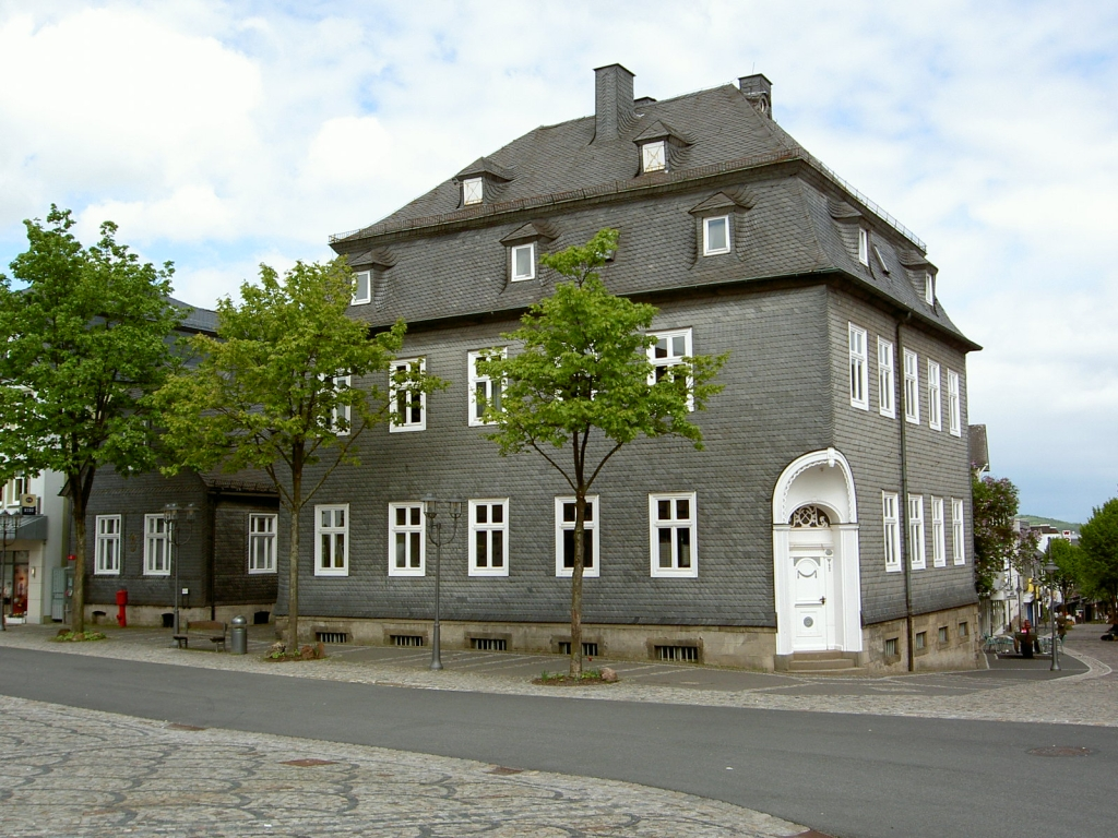 Brilon, Germany - Haus Hövener, May 2006